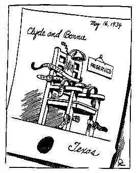 Editorial cartoon from defunct Dallas Journal showing electric chair "reserved for Clyde and Bonnie"